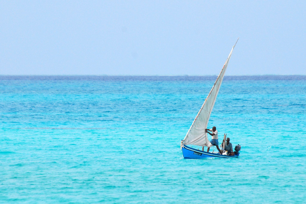 "There is no regular inter-island transportation system between inhabited islands. The ad hoc transportation system is serviced mainly by the local boats, which average a speed of about 8 miles per hour. A larger number of dhonis ply between the Malé International Airport and Malé route as ferries. Dhonis and even modern speedboats are also available for hire. Air Maldives, the national carrier, operates regular flights to the domestic airports at Hanimaadhoo, Kadhdhoo, Kaadedhdhoo and Gan." ..More Location: Maldives